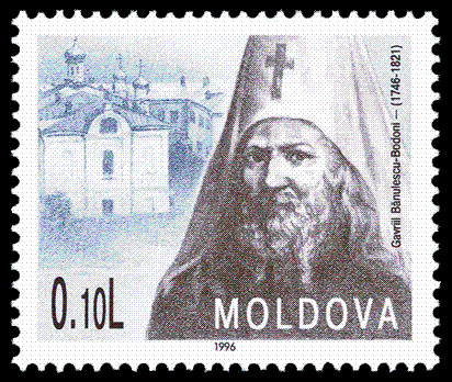 Stamp of Moldova